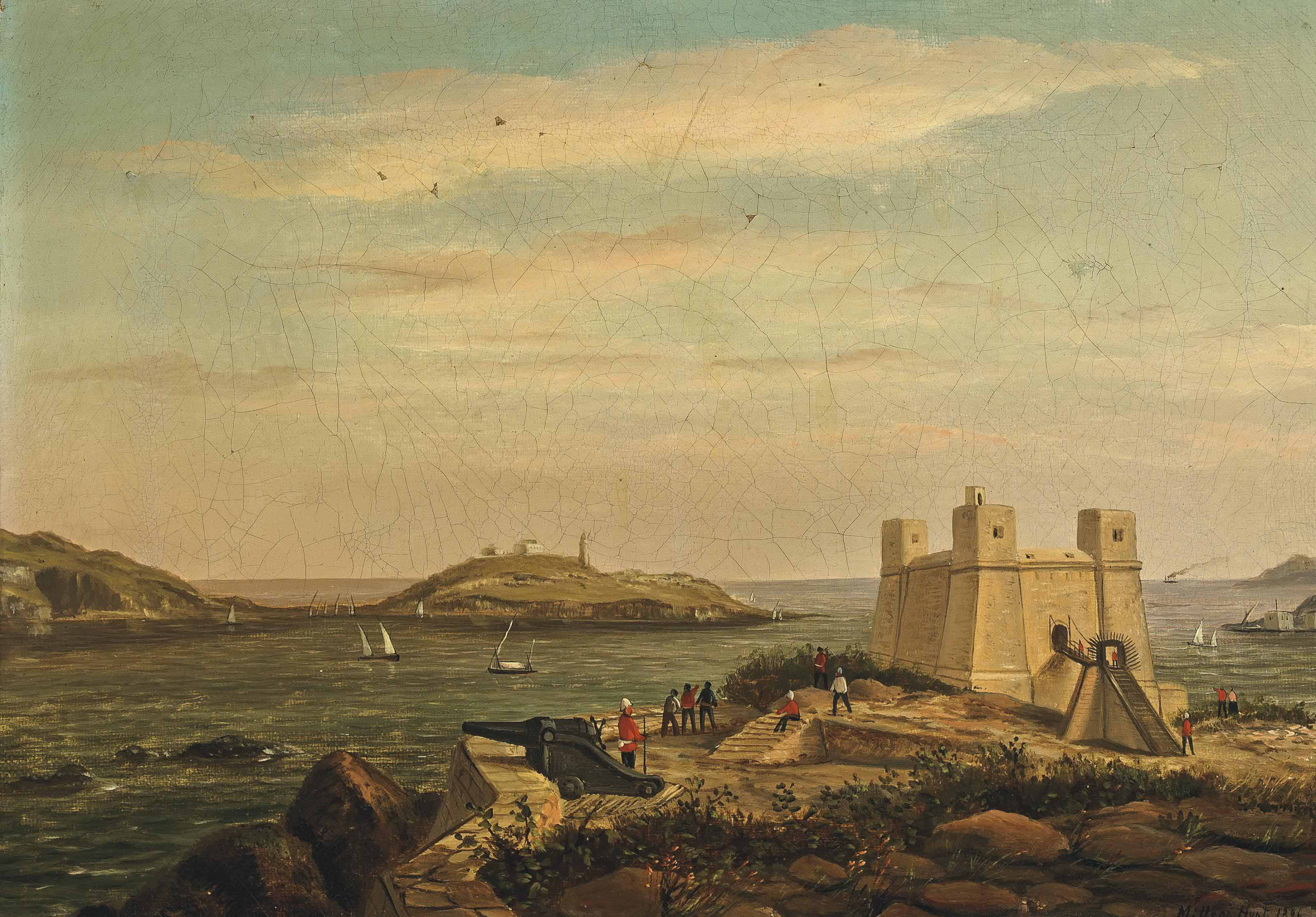 A View of Wignacourt Tower with St Paul's Bay beyond, Malta, by Milson Hunt 2012 CSK 04826 0299 signed and dated 'Milson Hunt 1886 oil on canvas 10 x 14in. (25.5cm x 35.5cm.)